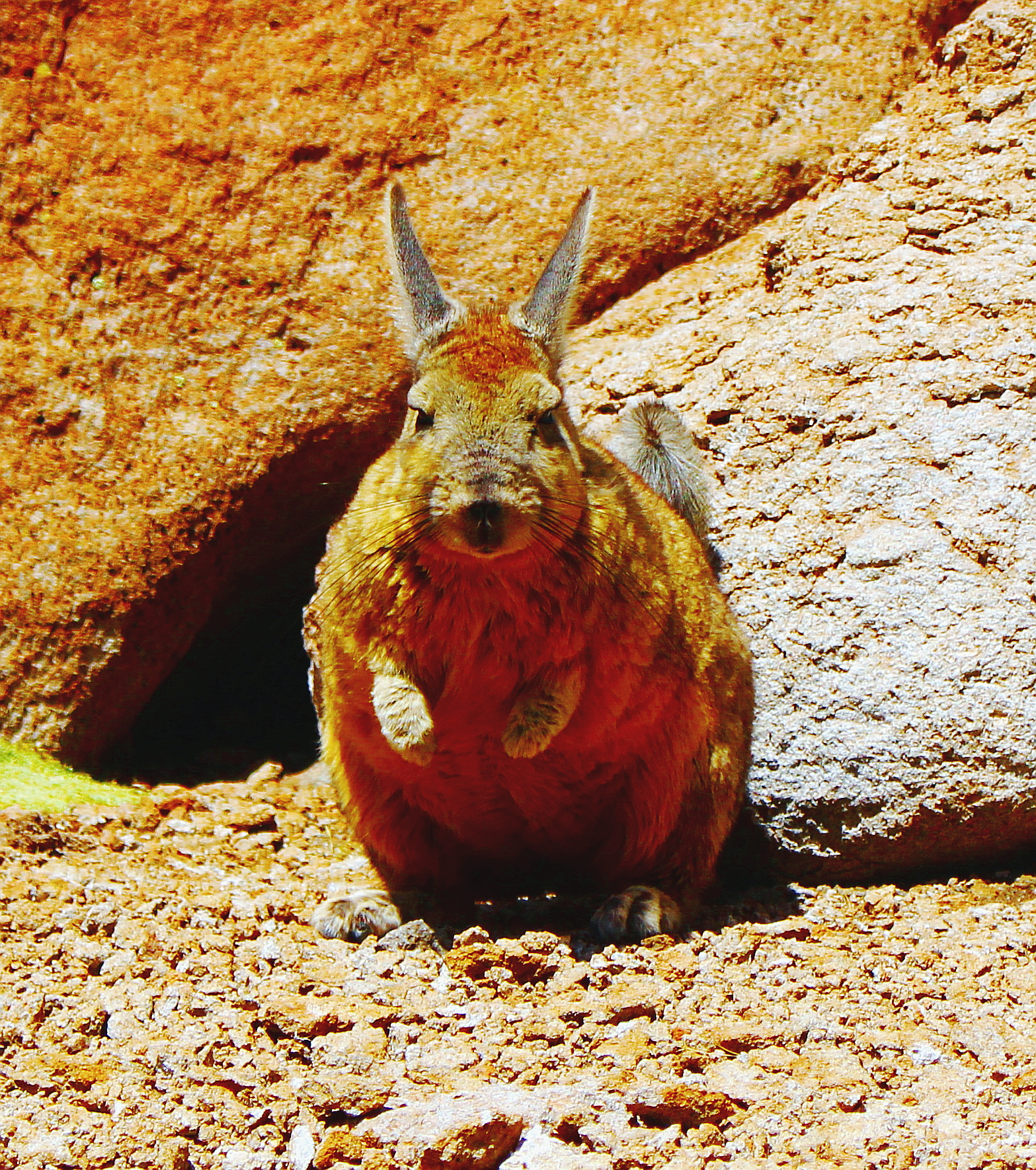 ViscachaSalarDeUyuni_20170503